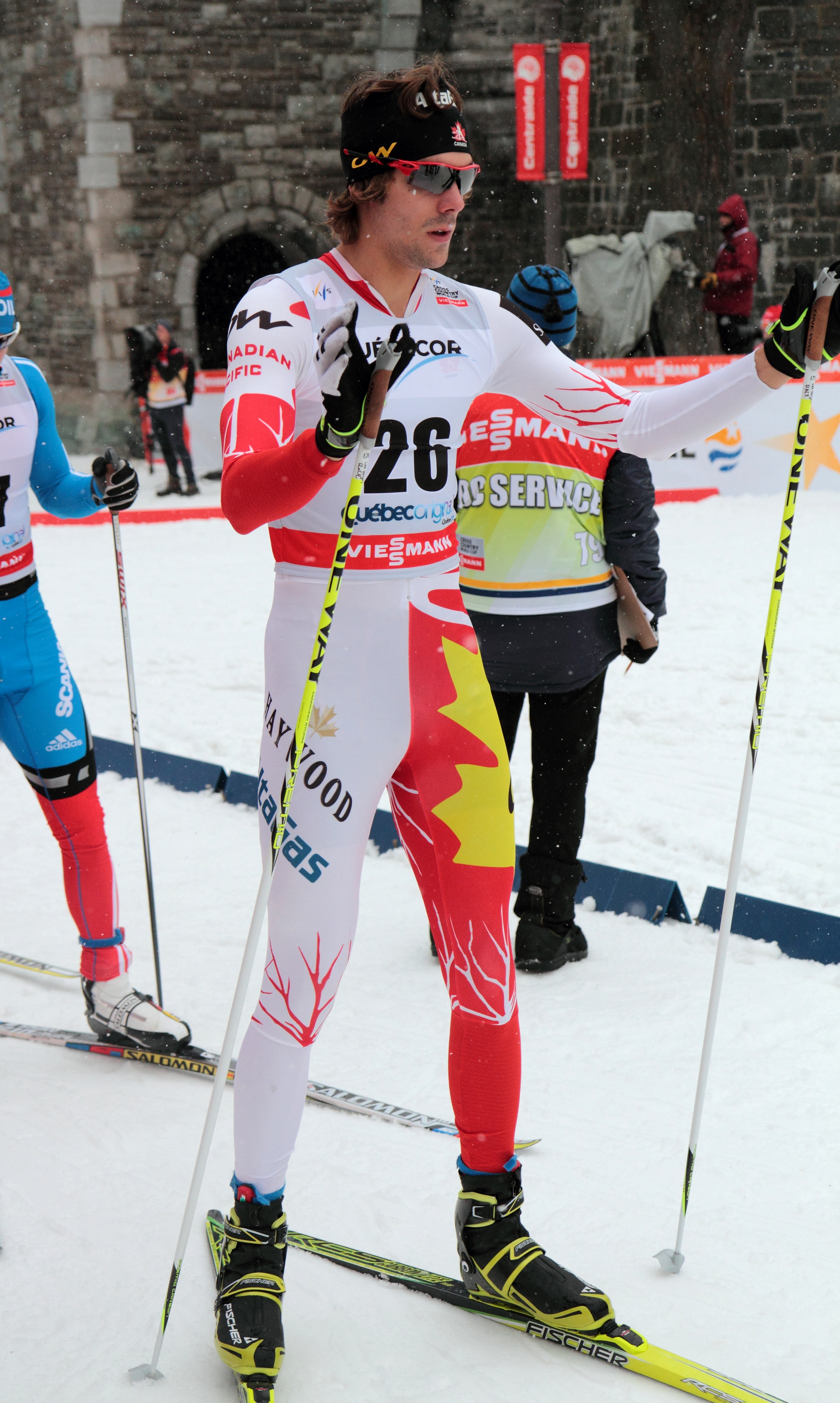 Len Valjas, FIS Cross-Country World Cup, 2012, Quebec, Canada